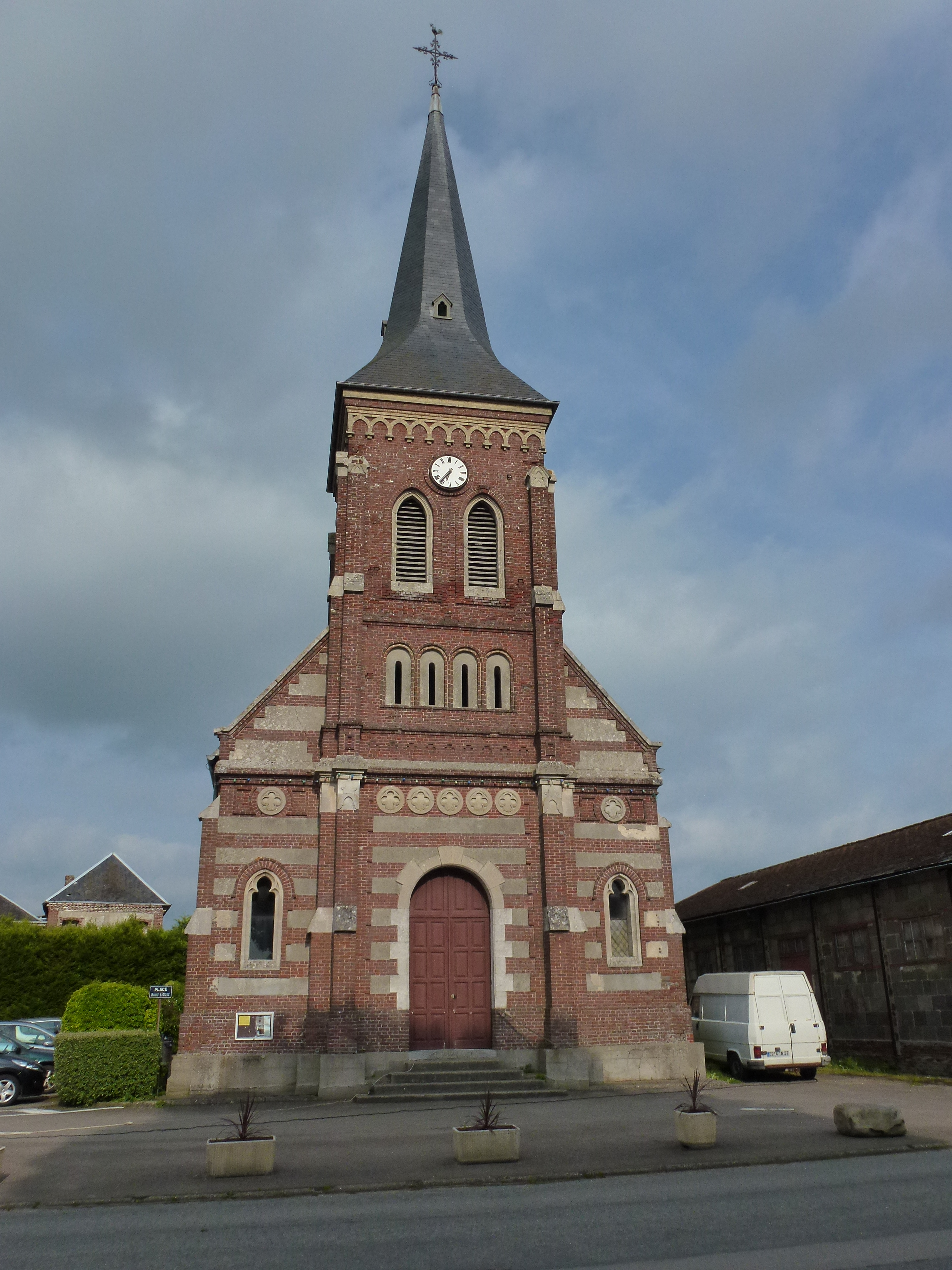 Quittebeuf (Eure, Fr) église, façade